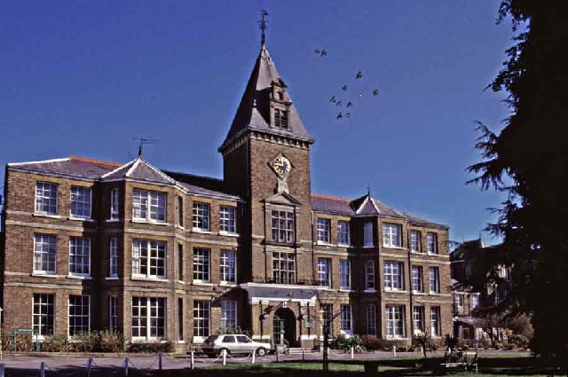 Clock Tower, Chase Farm Hospital, Enfield. The Clock Tower of Chase Farm Hospital is a local landmark. The Clock Tower Building was originally an orphagage.